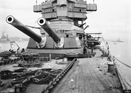 AWM caption : "Scotland, Firth of Forth. View down the fore deck of HMAS Australia, showing 'A' turret with 12 inch guns, 4 inch guns and a two seater Sopwith 1 1/2 strutter biplane on a platform above the port turret. On 4 April and 14 May 1918 this aircraft had taken off from a similar platform on the starboard side; this had not been done before with a two seater aircraft. (See EN0011, EN0017, EN0018.)"